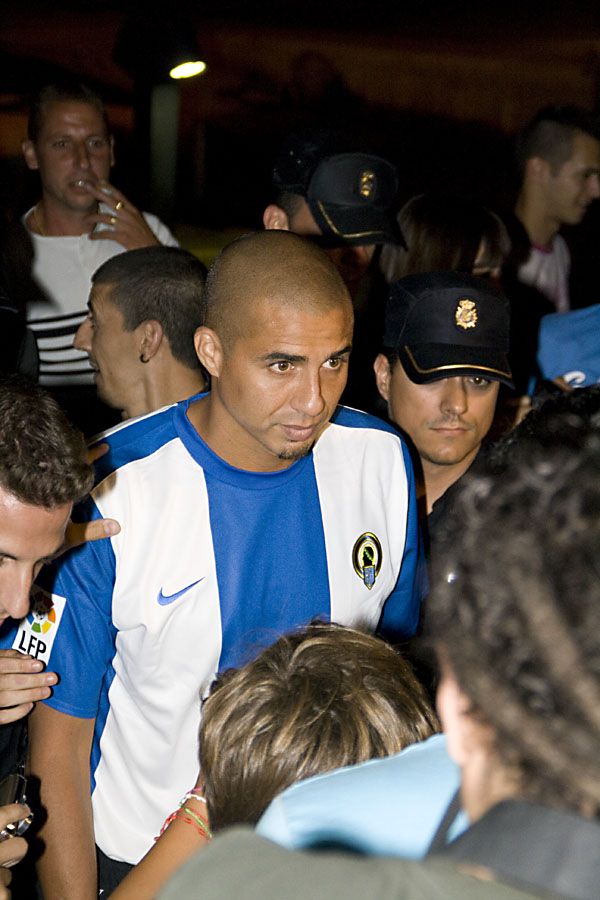 David Trezeguet in his presentation as a player of Hércules in August 2010. Ceremony held at the Port of Alicante, Santa Bárbara Castle in the background of the image.